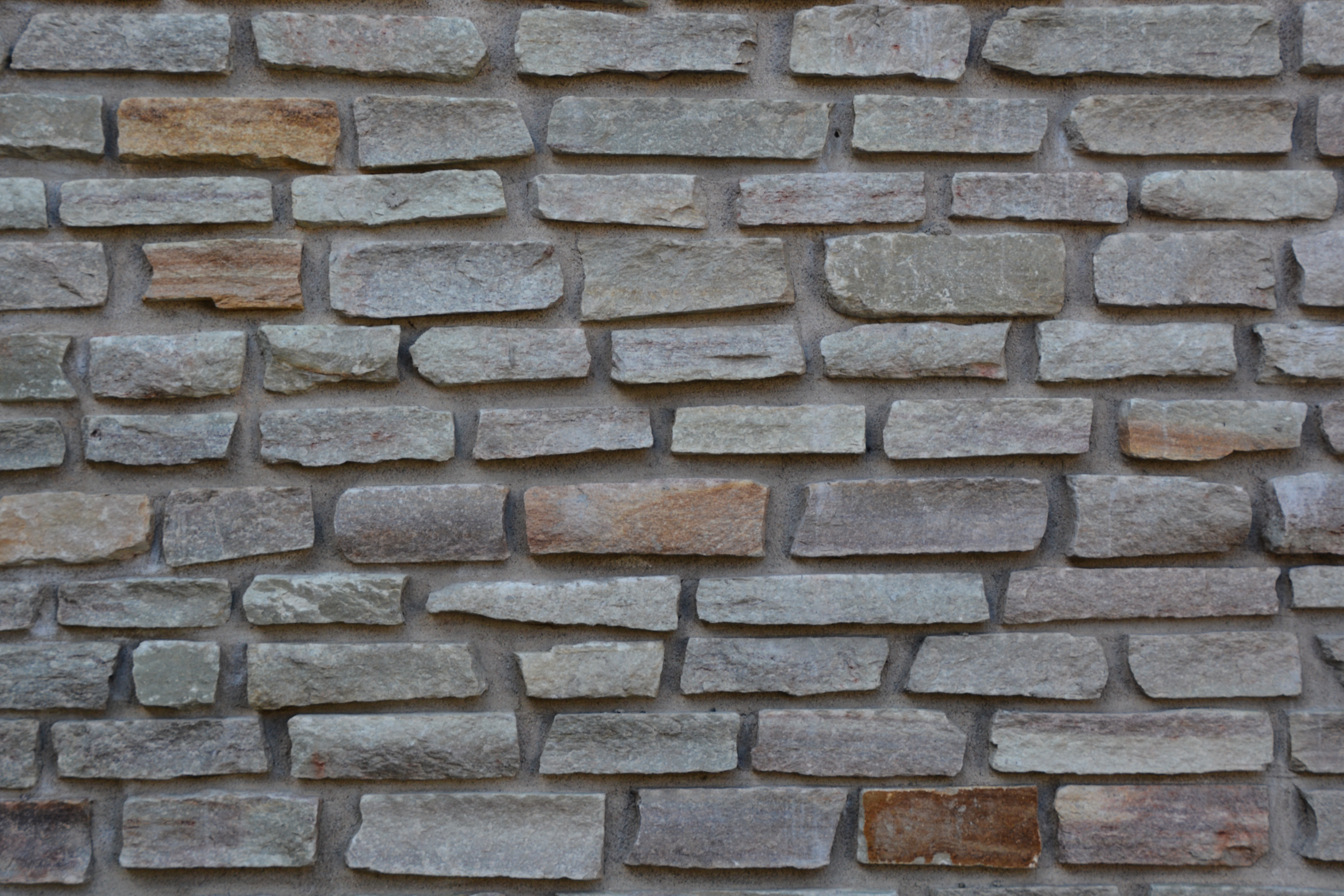 Kvartsit som byggmaterial, vägtunnel i Kyrkslätt/Kirkonummi, Finland